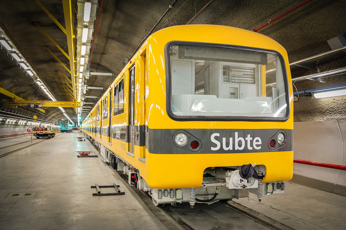 Refurbished Siemens O&K for the Buenos Aires Underground.